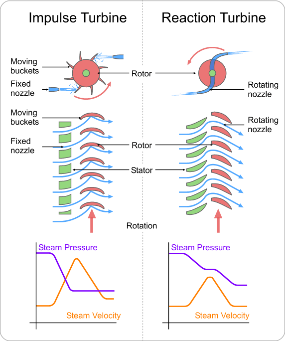 Schematic diagram summarising the differences between impulse and reaction turbines.